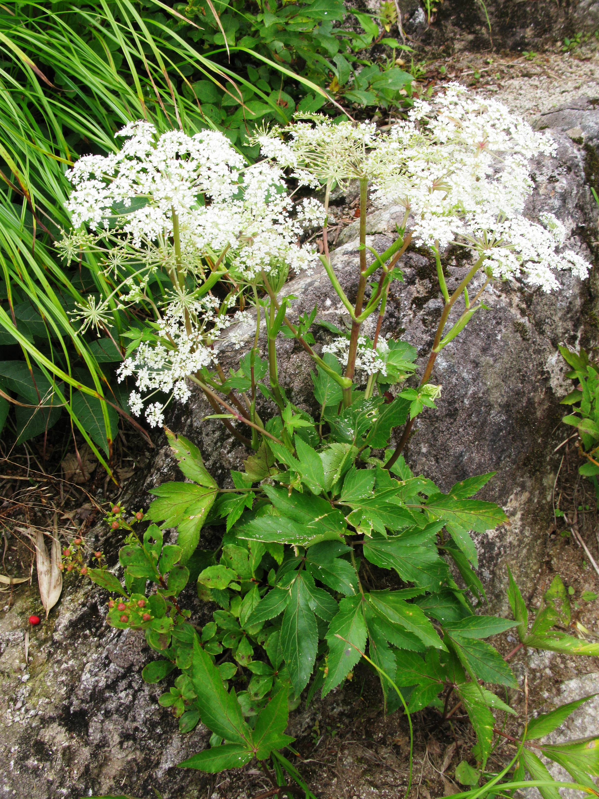 Angelica acutiloba subsp. iwatensis, Mt. Iide, Fukushima pref., Japan